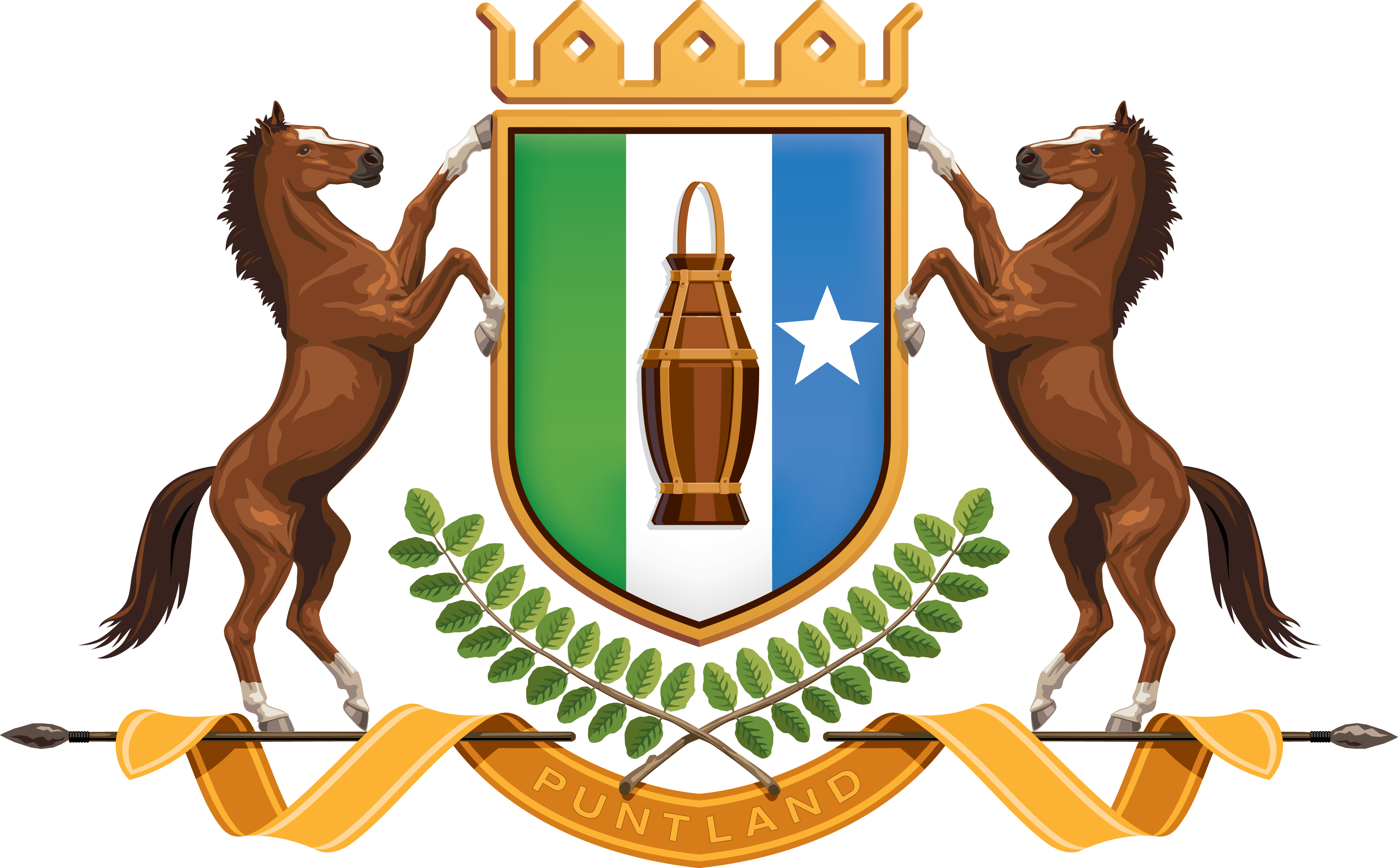 The Coat of Arms consists of two native horses, a wooden milk vessel (Dhiil) used for collecting and carrying milk when travelling and a tree branch from Boswellia trees, from which frankincense is harvested.